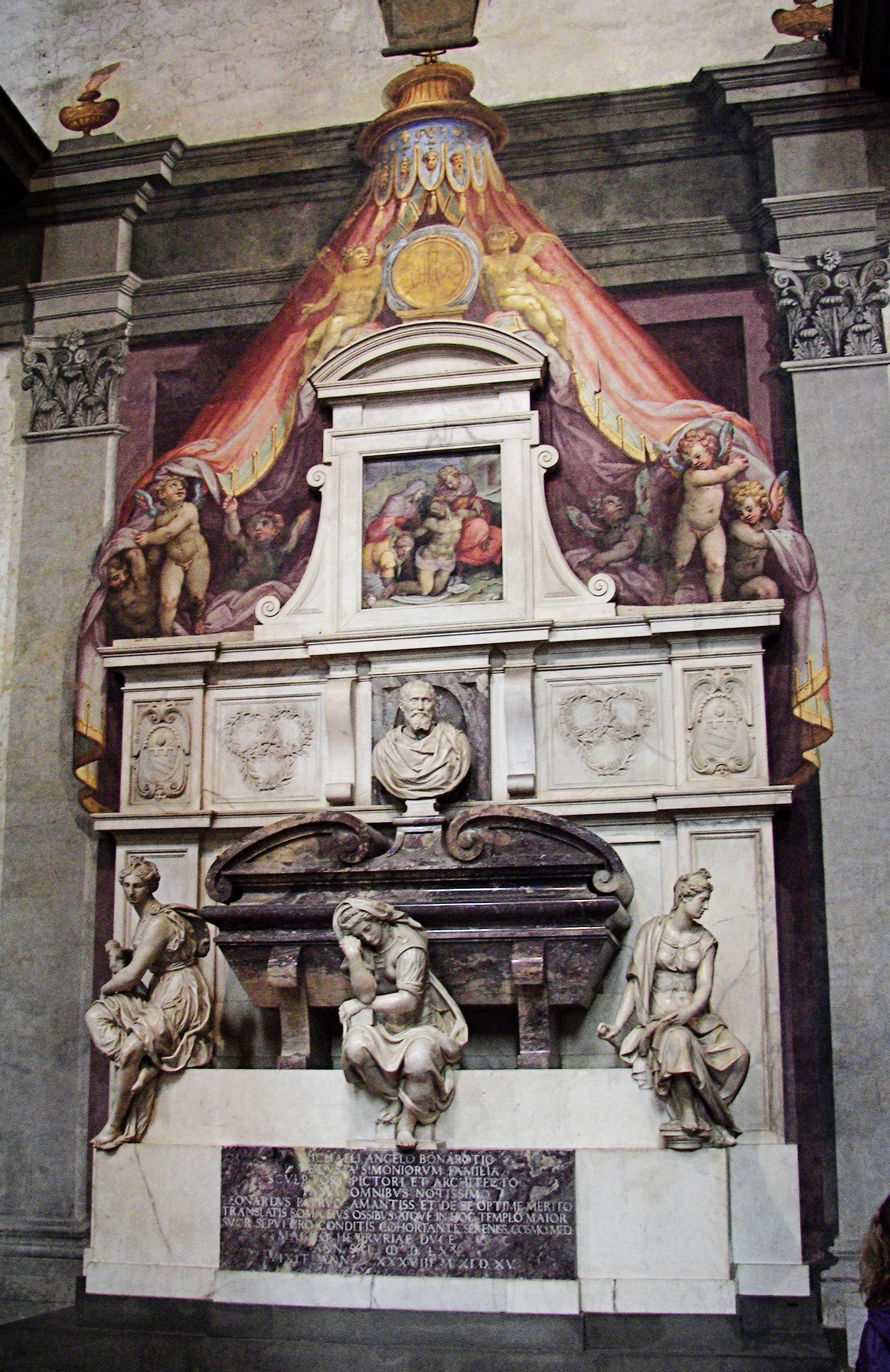 Grave of Michelangelo in Santa Croce in Firenze.